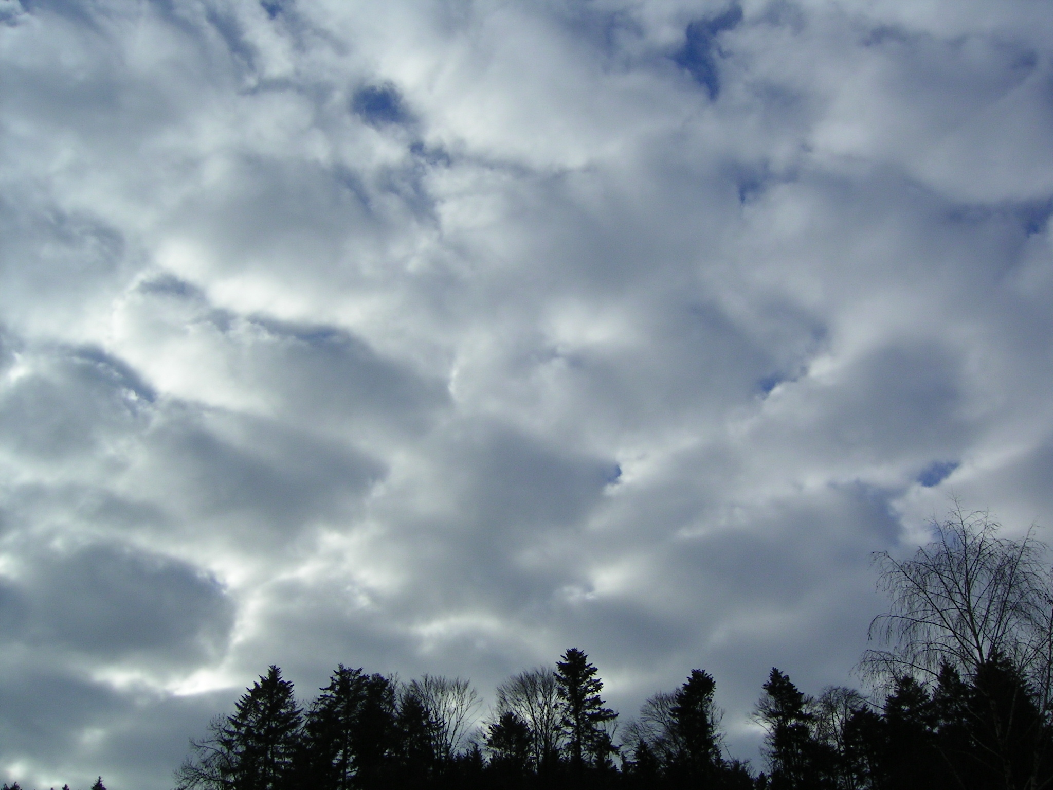 Large Stratocumulus stratiformis perlucidus, illuminated from east